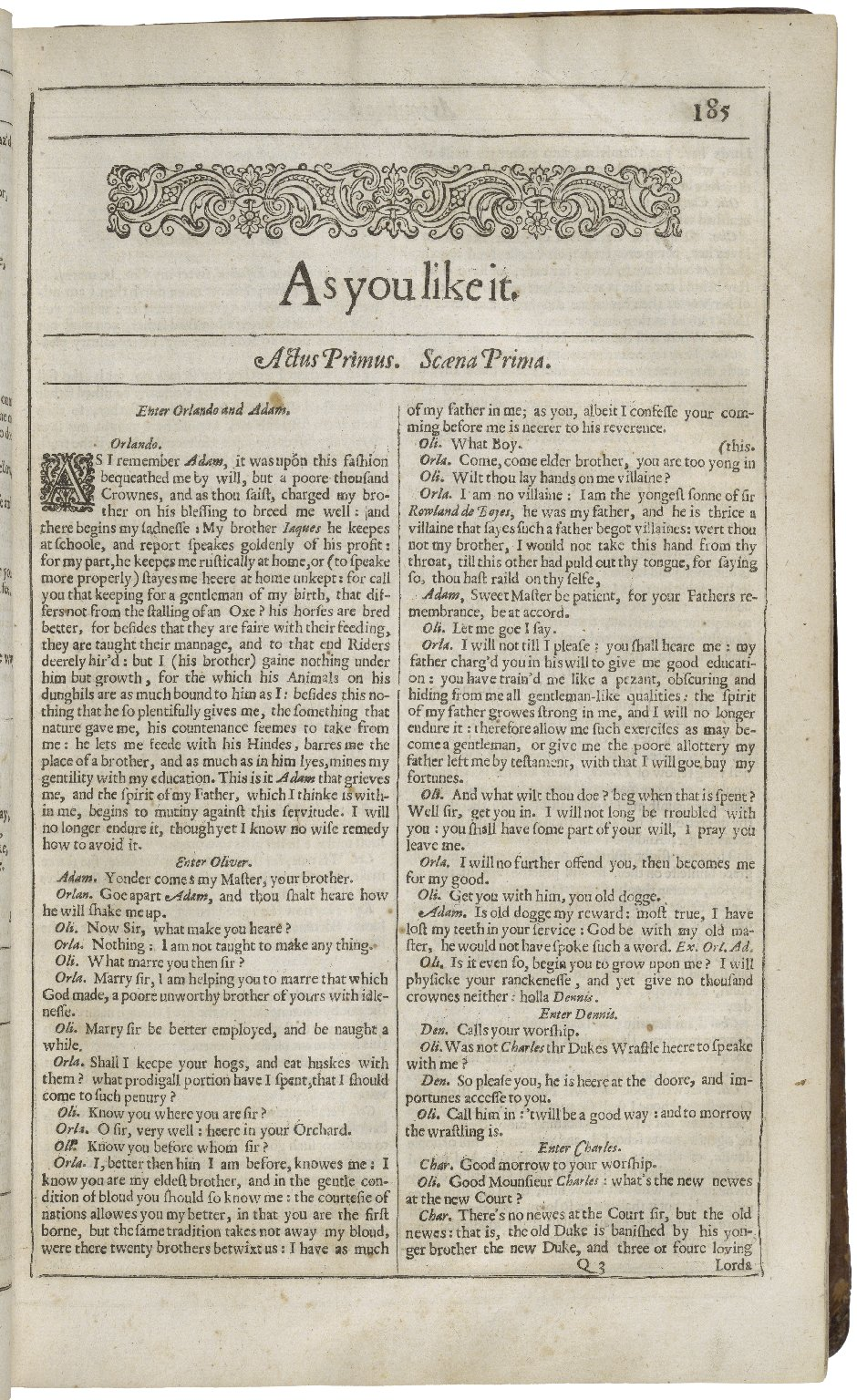 The title page of As You Like It, printed in the Second Folio of 1632